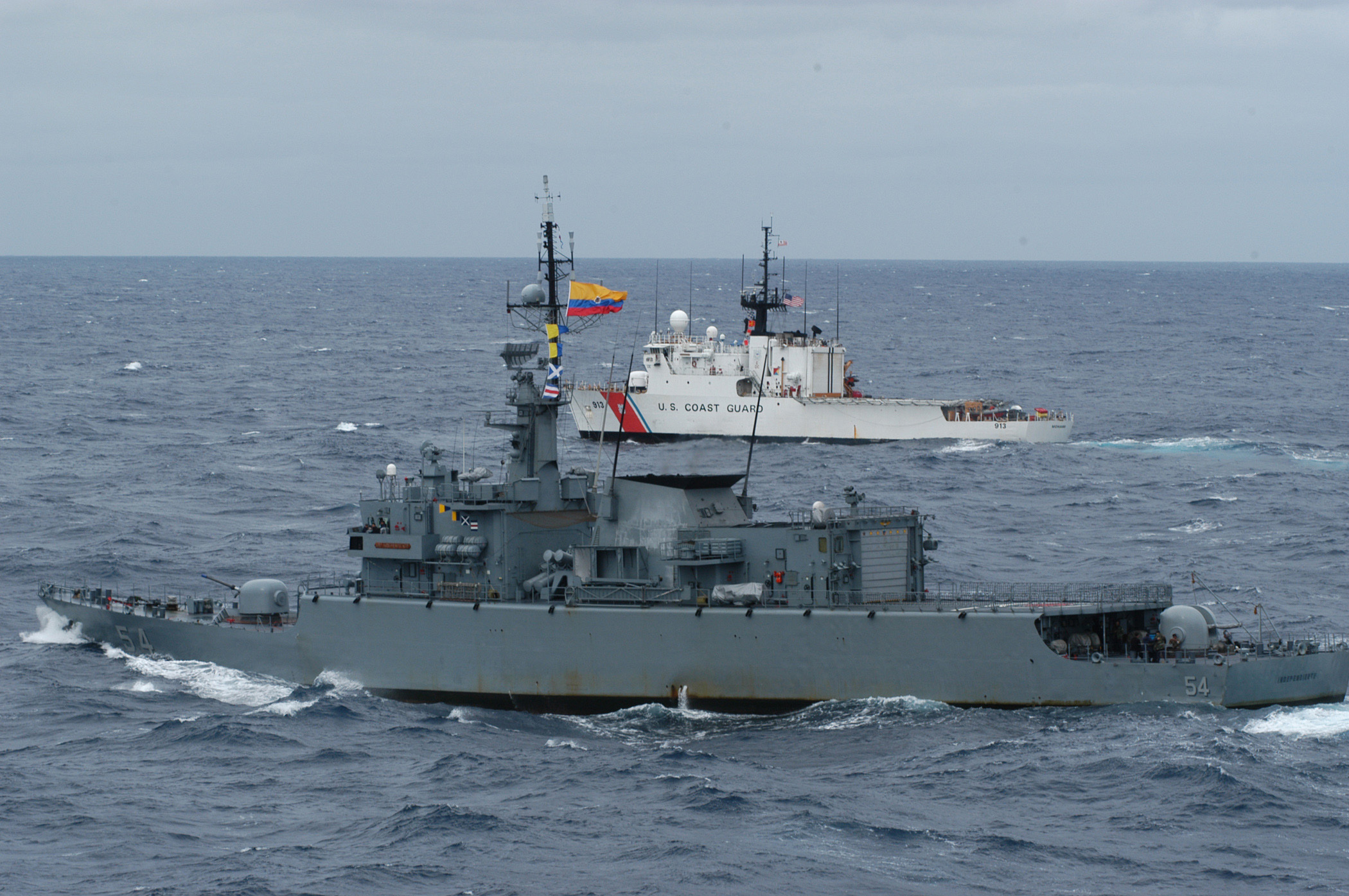 Colombian frigate Independiente (FL 54) and U.S. Coast Guard cutter Mohawk (WMEC 913) sail together while a photo exercise is being conducted during UNITAS 48-07 Pacific Phase June 23, 2007, while under way in the Pacific Ocean. The multinational naval exercise develops and tests the participating navies' capabilities to respond to a wide variety of maritime missions as a unified force. (U.S. Navy photo by Mass Communications Specialist 2nd Class Alexia M. Riveracorrea) (Released)